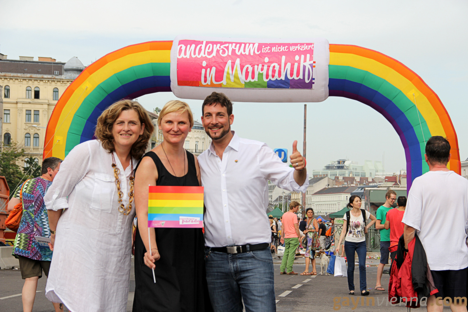 Credit: / Dorian Rammer